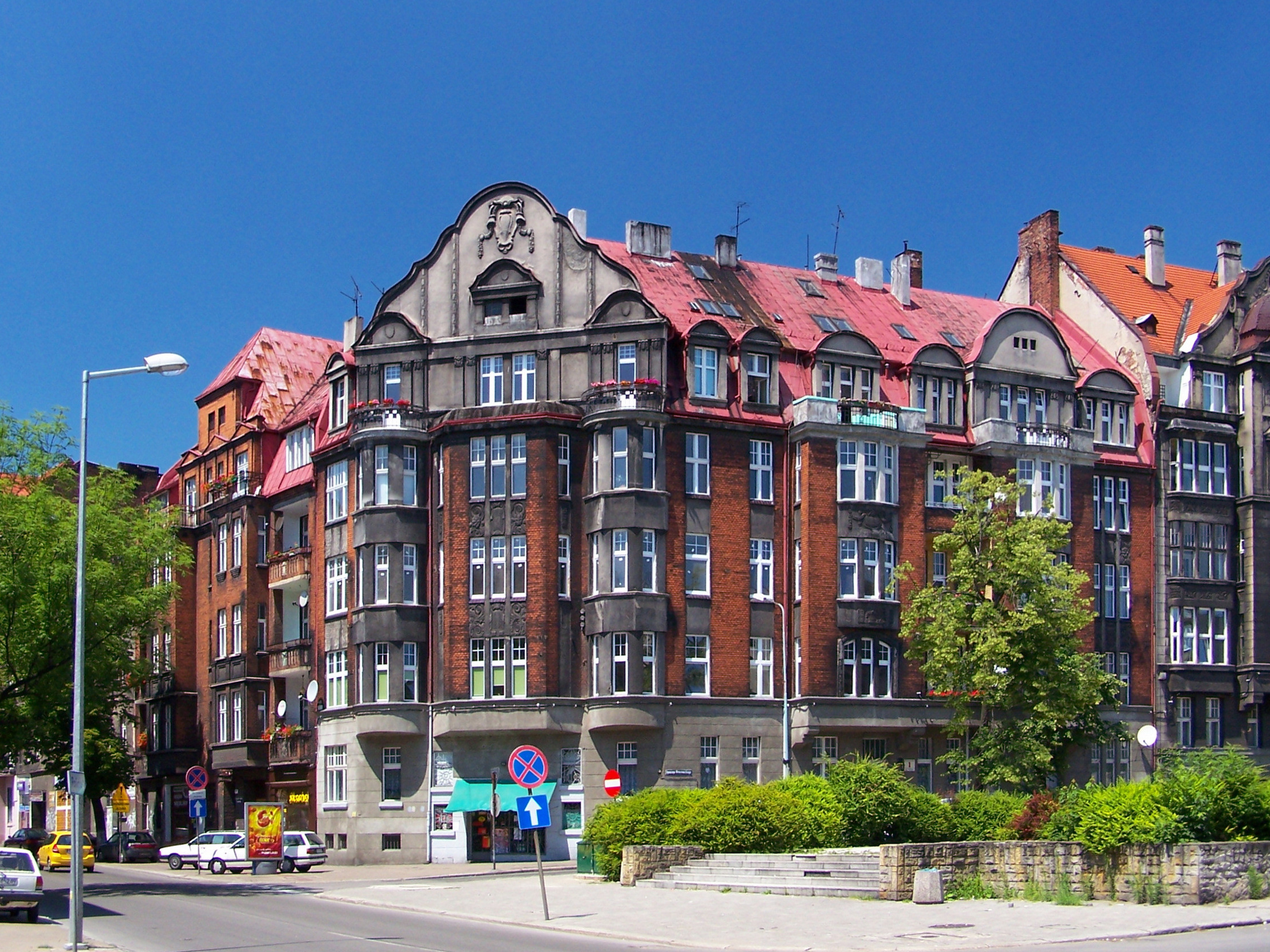 Tenement house on the Powstańców Warszawskich Street in Bytom.